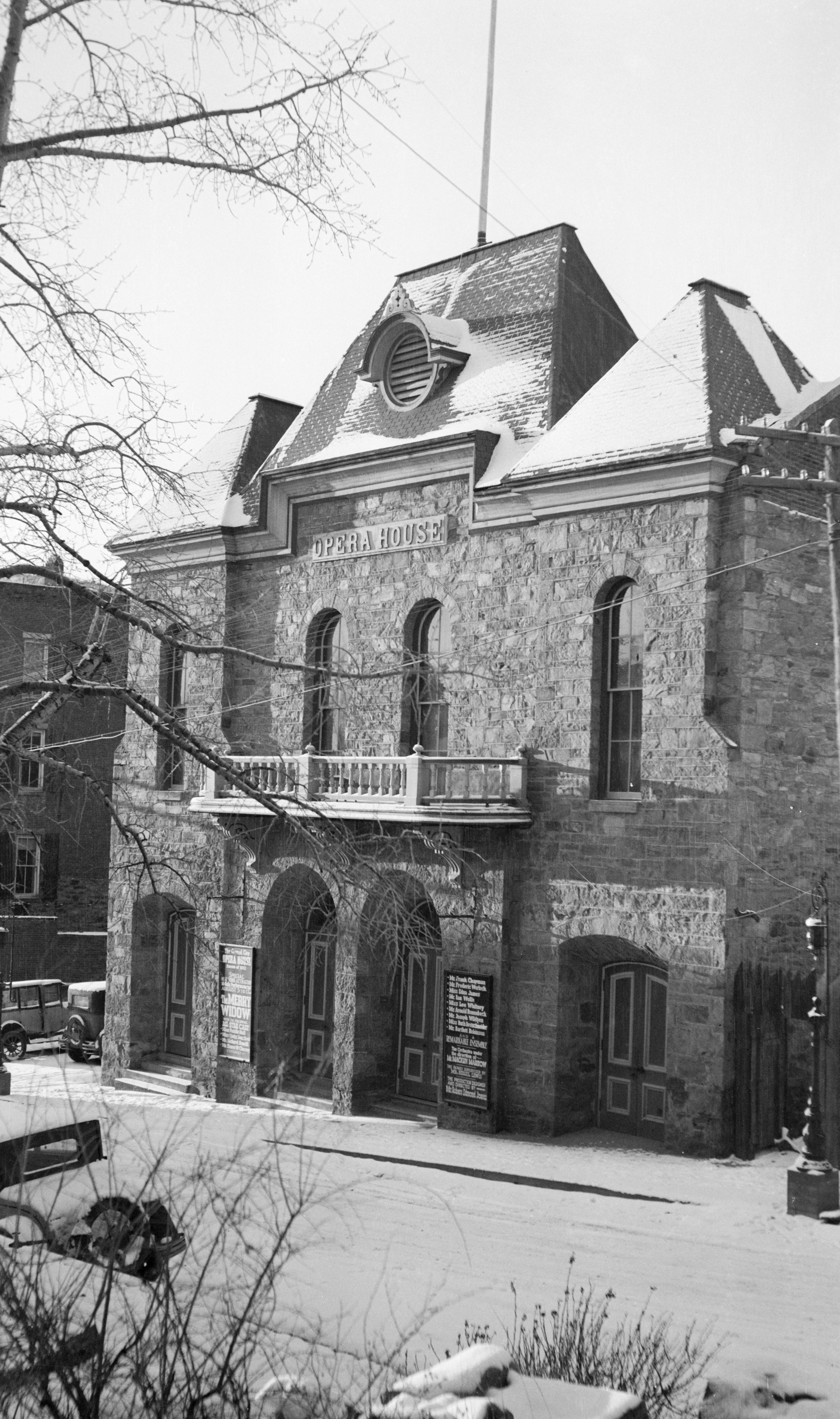 Opera House, Central City, Gilpin County, CO Historic American Buildings Survey Bernal Wells, Photographer, January 24, 1934 FRONT ELEVATION